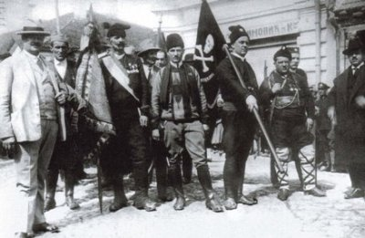 Serbian Chetniks in Vranje setting out for South Serbia